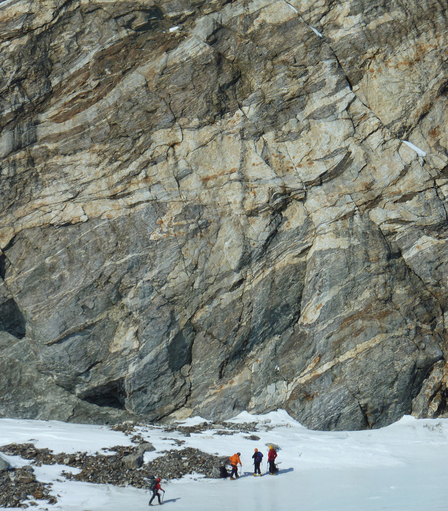 Migmatite geology at Maigetter Peak, Fosdick Mountains, West Antarctica. C. Siddoway and research team investigated crustal differentiation and tectonic evolution of the Marie Byrd Land terrane. Siddoway led four expeditions to the Fosdick Mountains (2005 to 2012) and conducted her PhD research in this region (1989 to 1993, member of three three UCSB field expeditions)